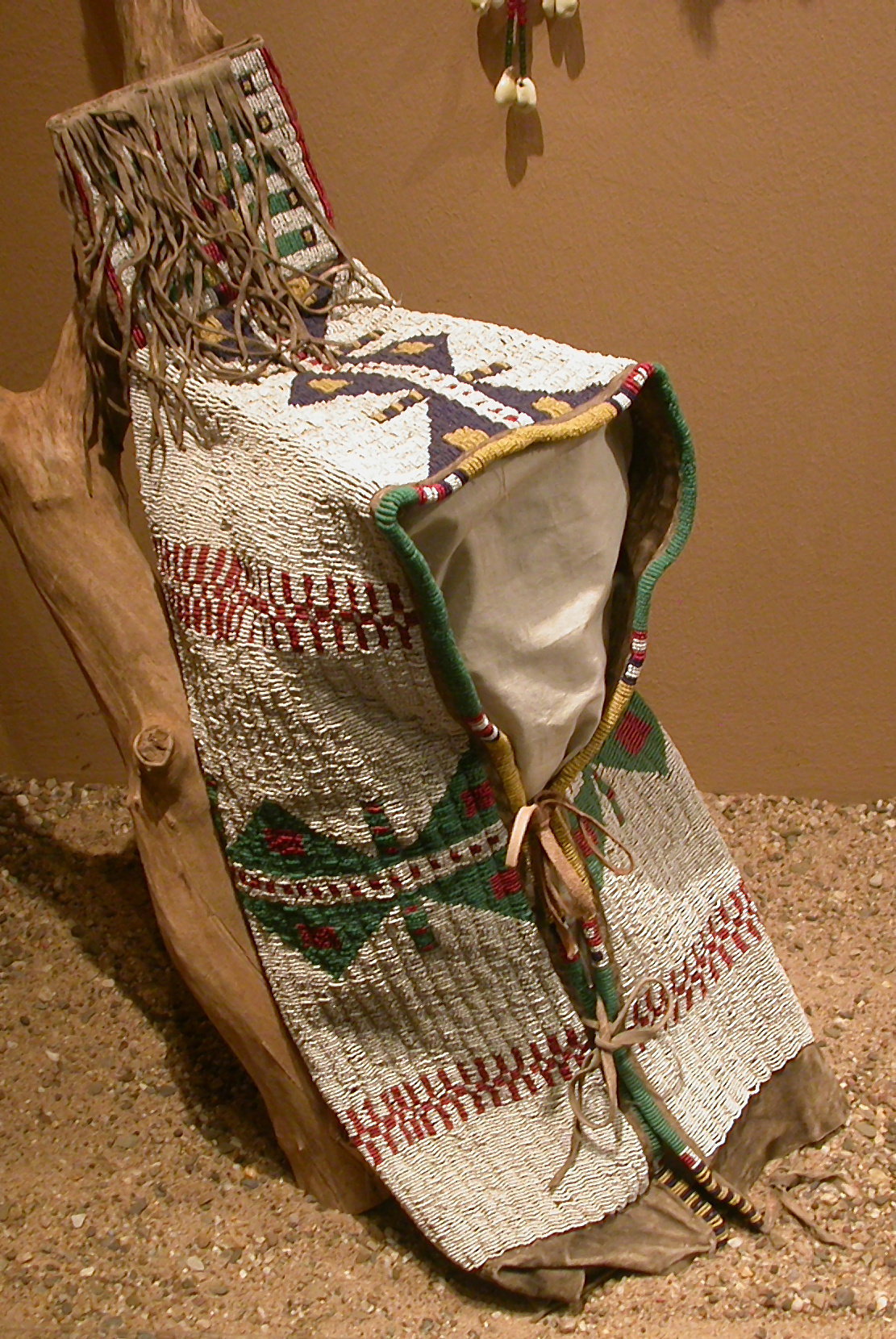 Westfälisches Museum für Naturkunde (Münster), Baby sling of the Sioux